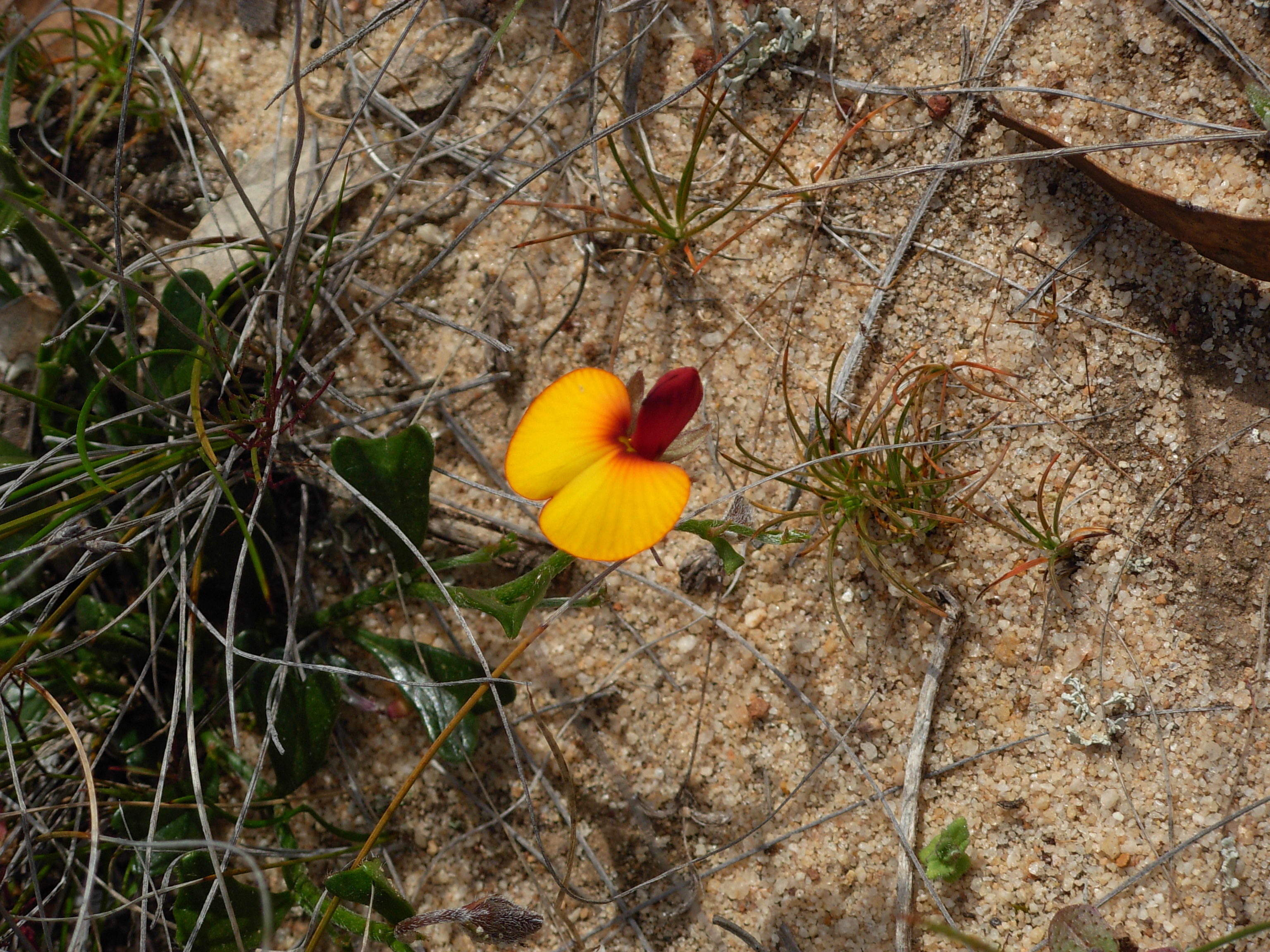 Drummond Nature Reserve - Isotropis cuneifolia